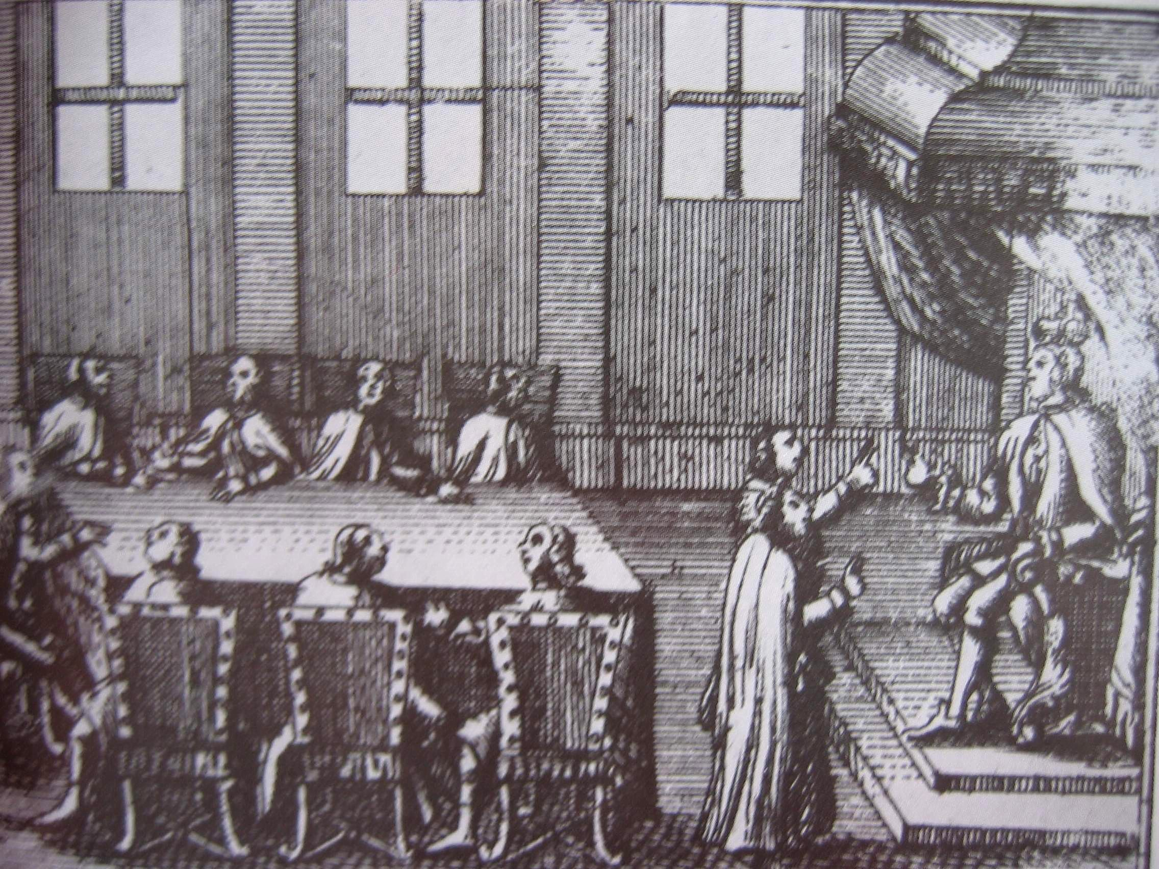 The Permanent Council (Polish: Rada Nieustająca) was the highest administrative authority in the Polish-Lithuanian Commonwealth between 1775 and 1789 and the first modern government in Europe. German engraving, entitled Das Conseil permanent dagegen erdfnet 1775. Size 7.3x9.3 cm